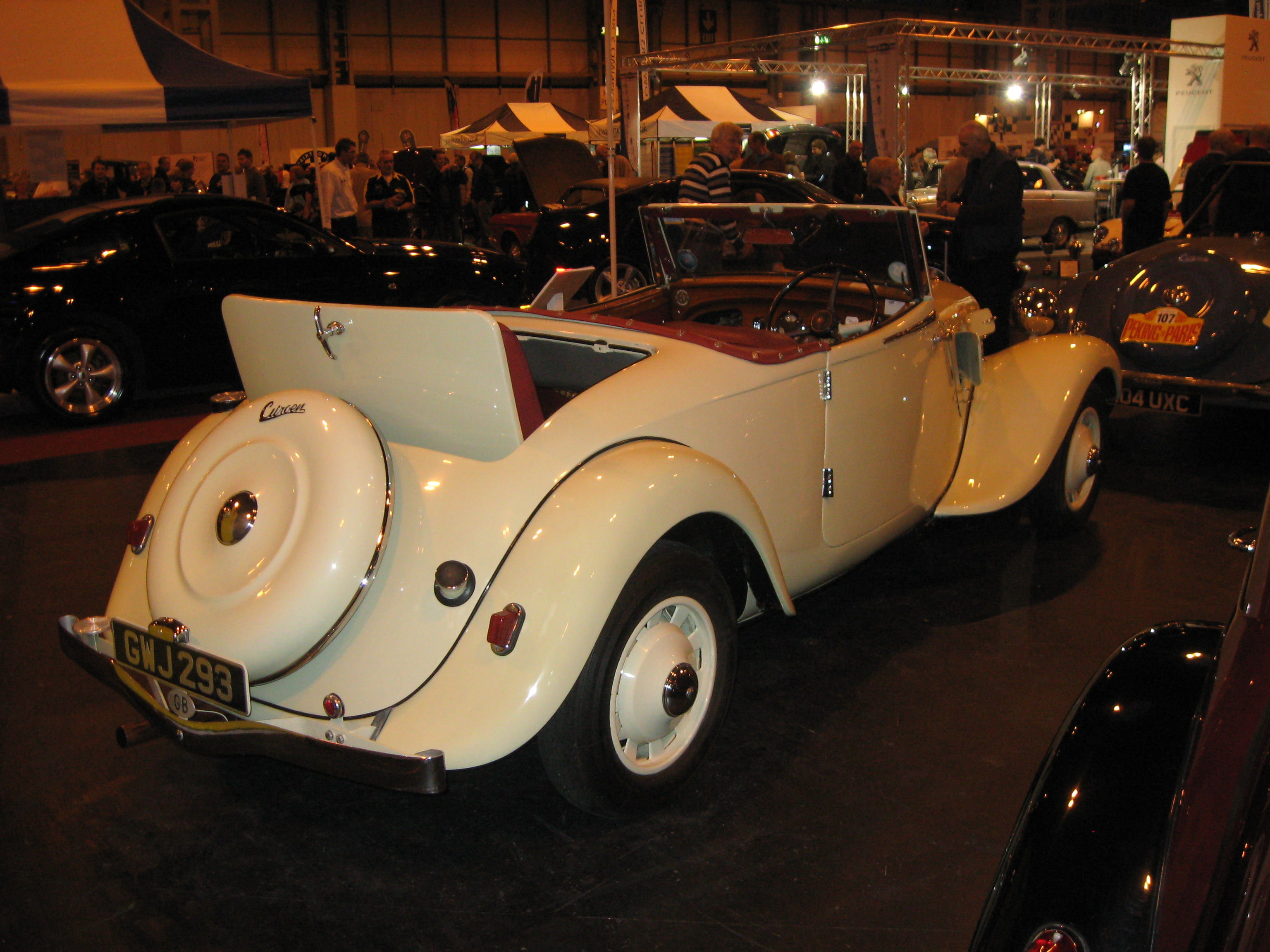 I LOVE this - what a stunning example. Love those Michelin Pilote wheels.